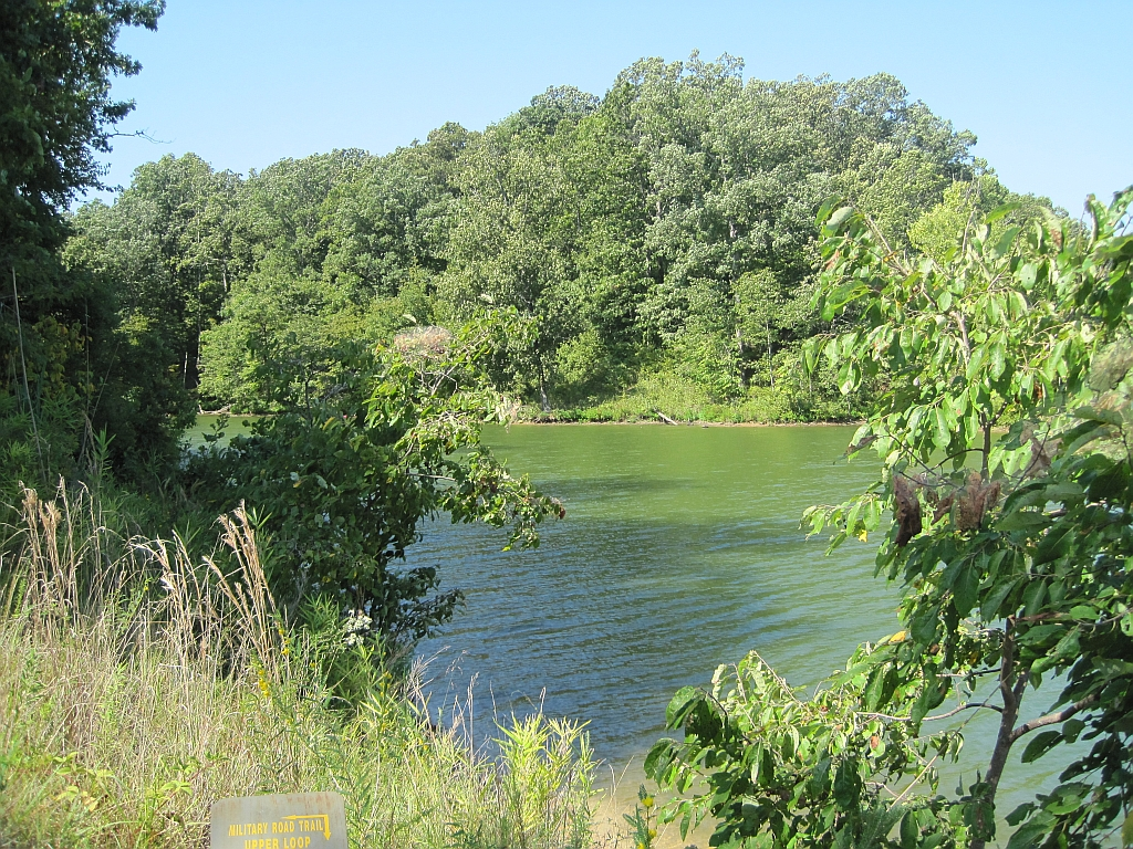 Village Creek State Park south of Wynne, Arkansas. Lake Austell